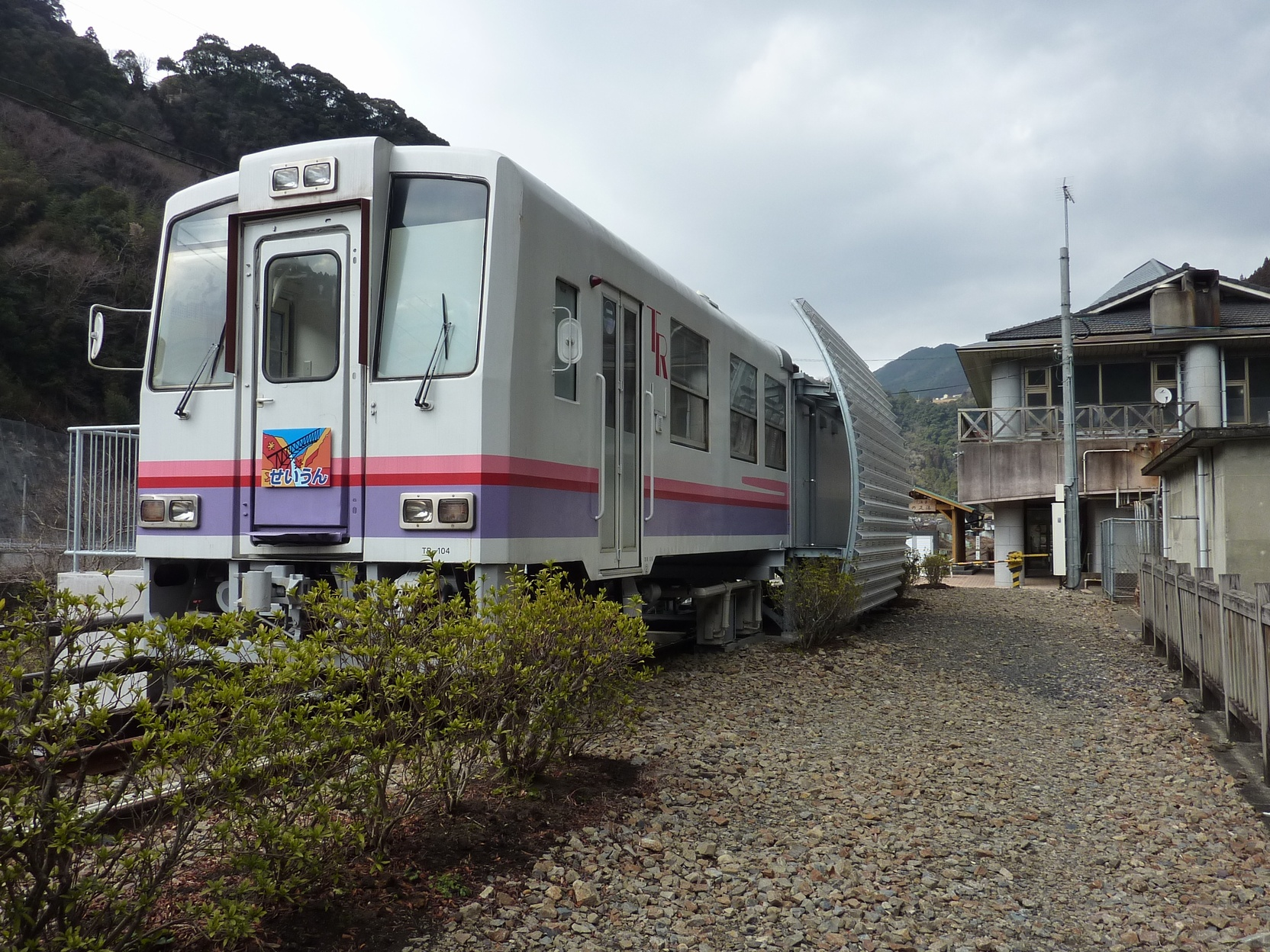 The Train Hotel in Hinokage Town, miyazaki, Japan